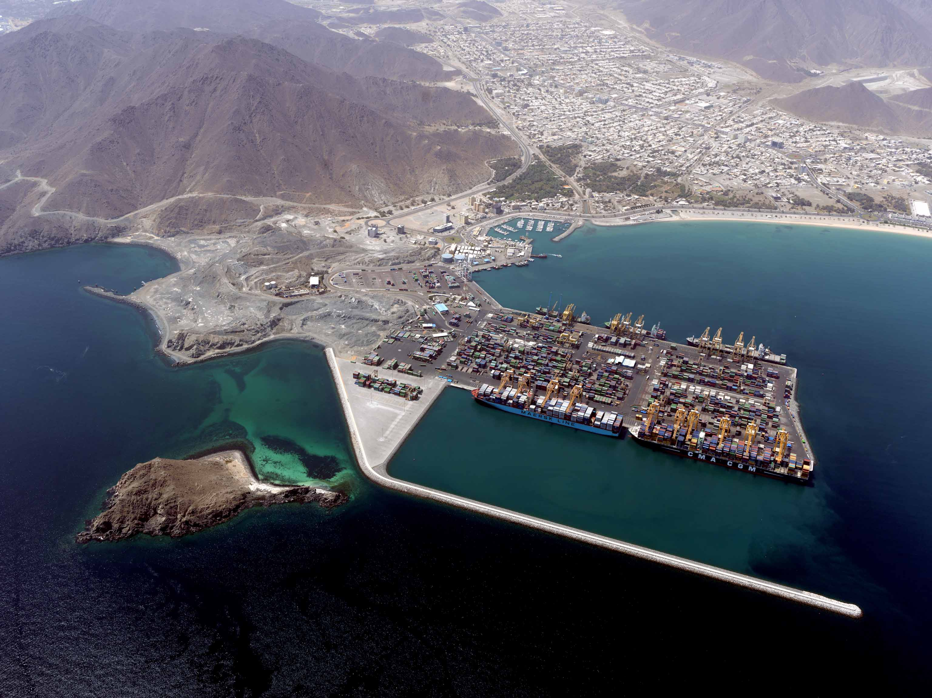 Gulftainer Khorfakkan Port